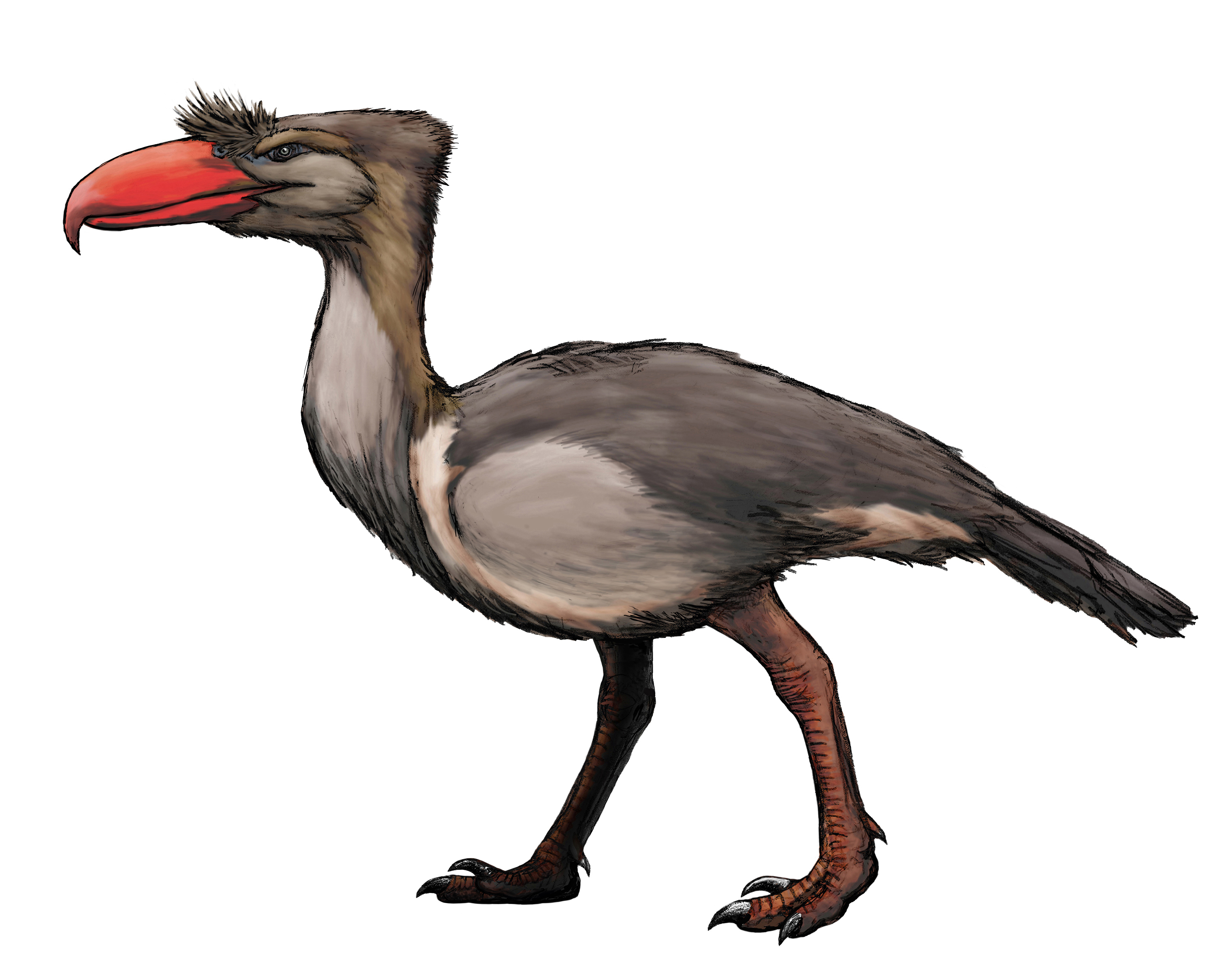 Restoration of the terror bird Kelenken guillermoi.